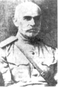 Movses Silikyan (1862–1937), General in the Russian Empire and the First Republic of Armenia